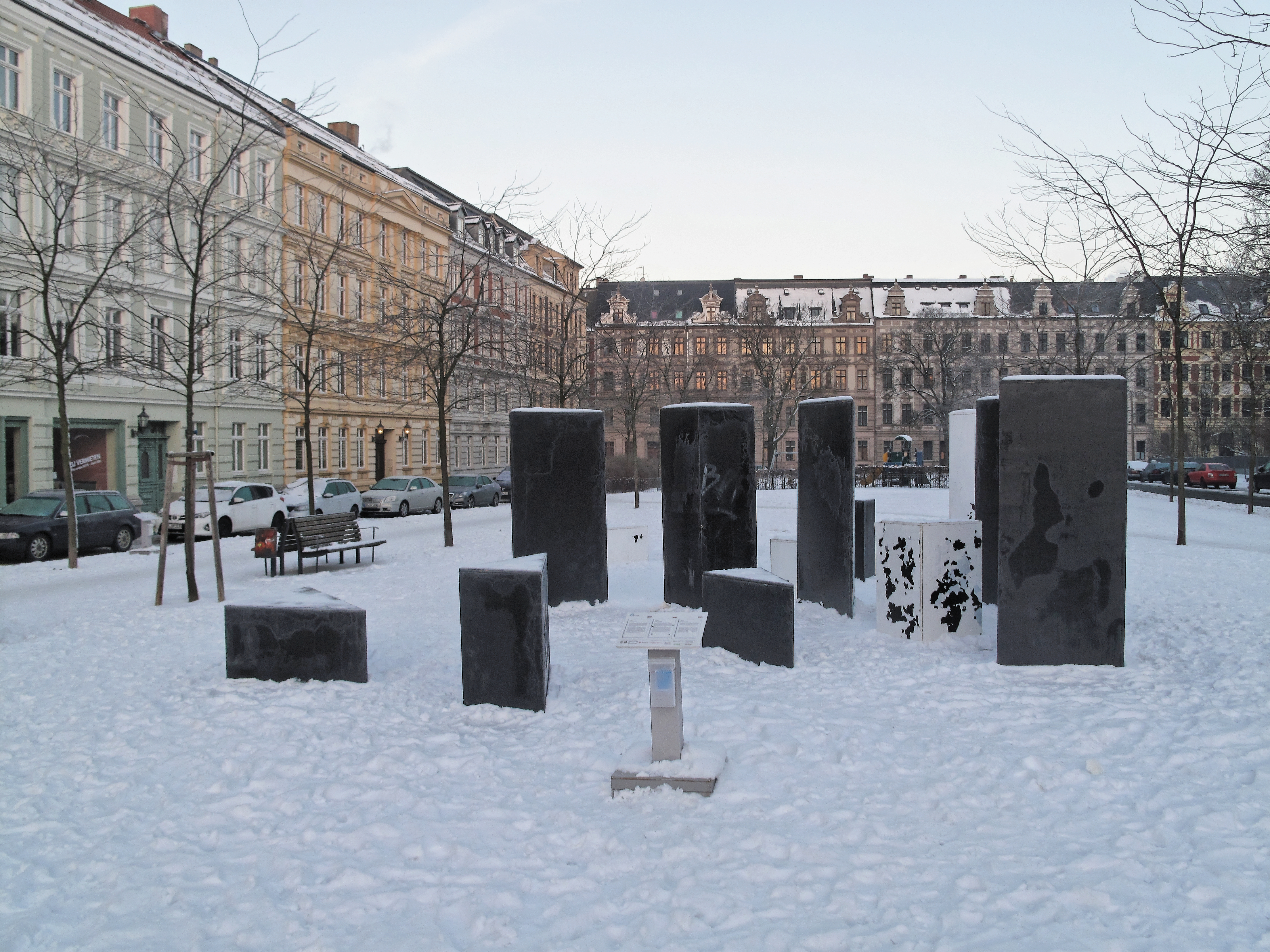 Piece of Art "Grenze" (english:´border´) by Tomasz Tomaszewski as part of Görlitzer ART 2016